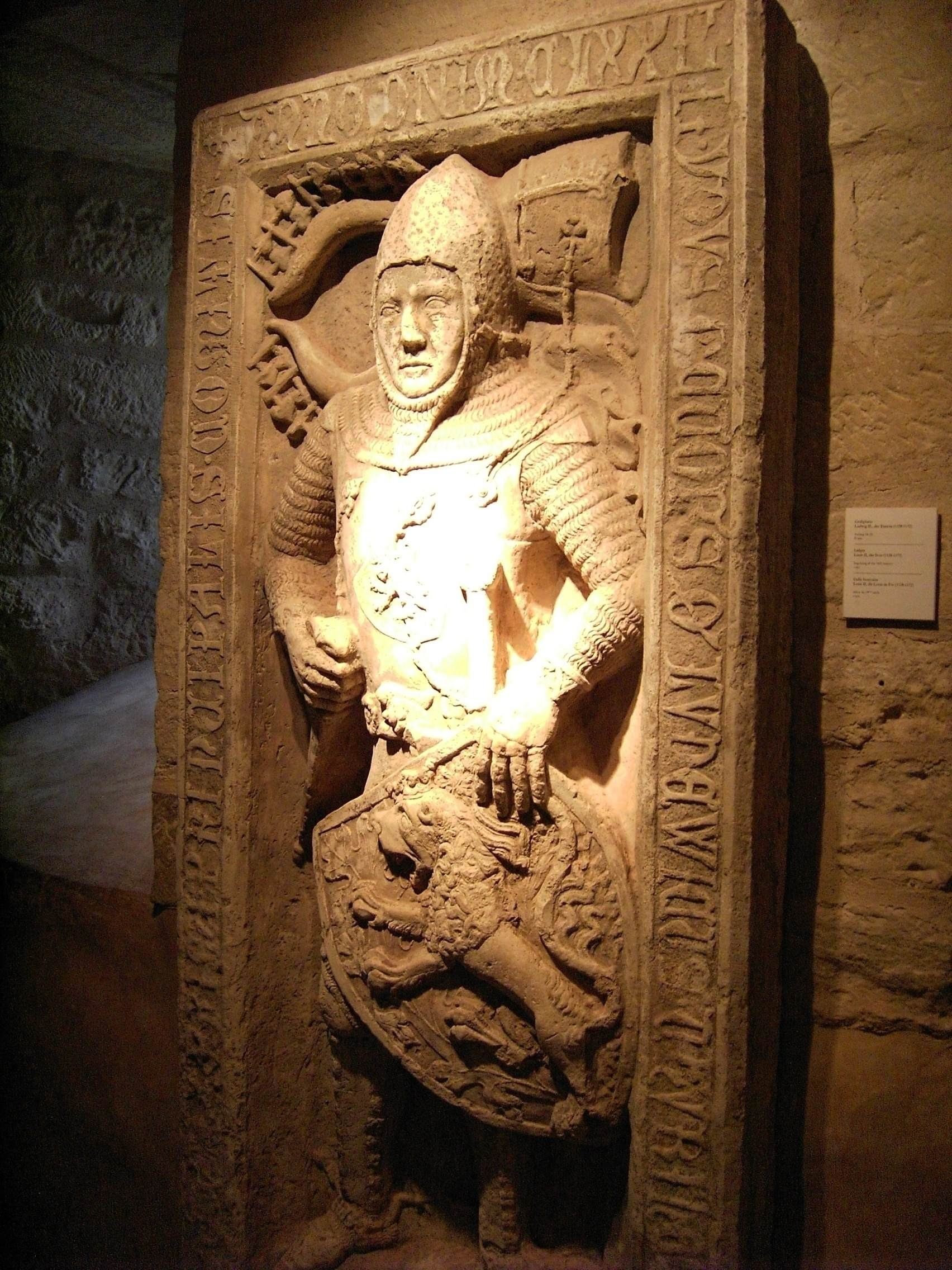 Wartburg, Ludwig der Eiserne, tomb cover.